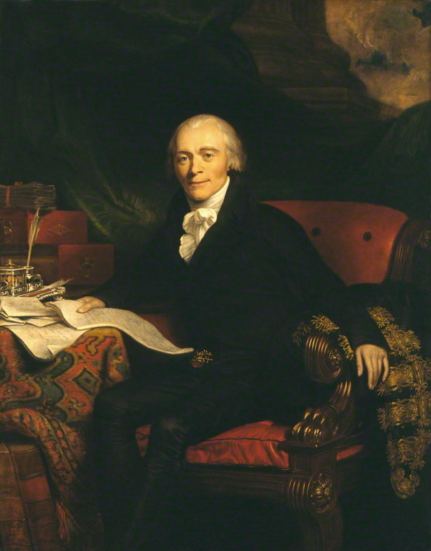 Portrait of Spencer Perceval (1762-1812), Prime Minister of Great Britain